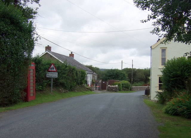 Entering Mynachlog-ddu The name of this remote Preseli village is usually thought to derive from the Welsh for 'black monks' but it has also been suggested it may be a corruption of mynach Llandudoch/the monks of Llandudoch which is the Welsh name for St Dogmael's where there is an abbey to which the village belonged (the same saint also the patron of the parish church).